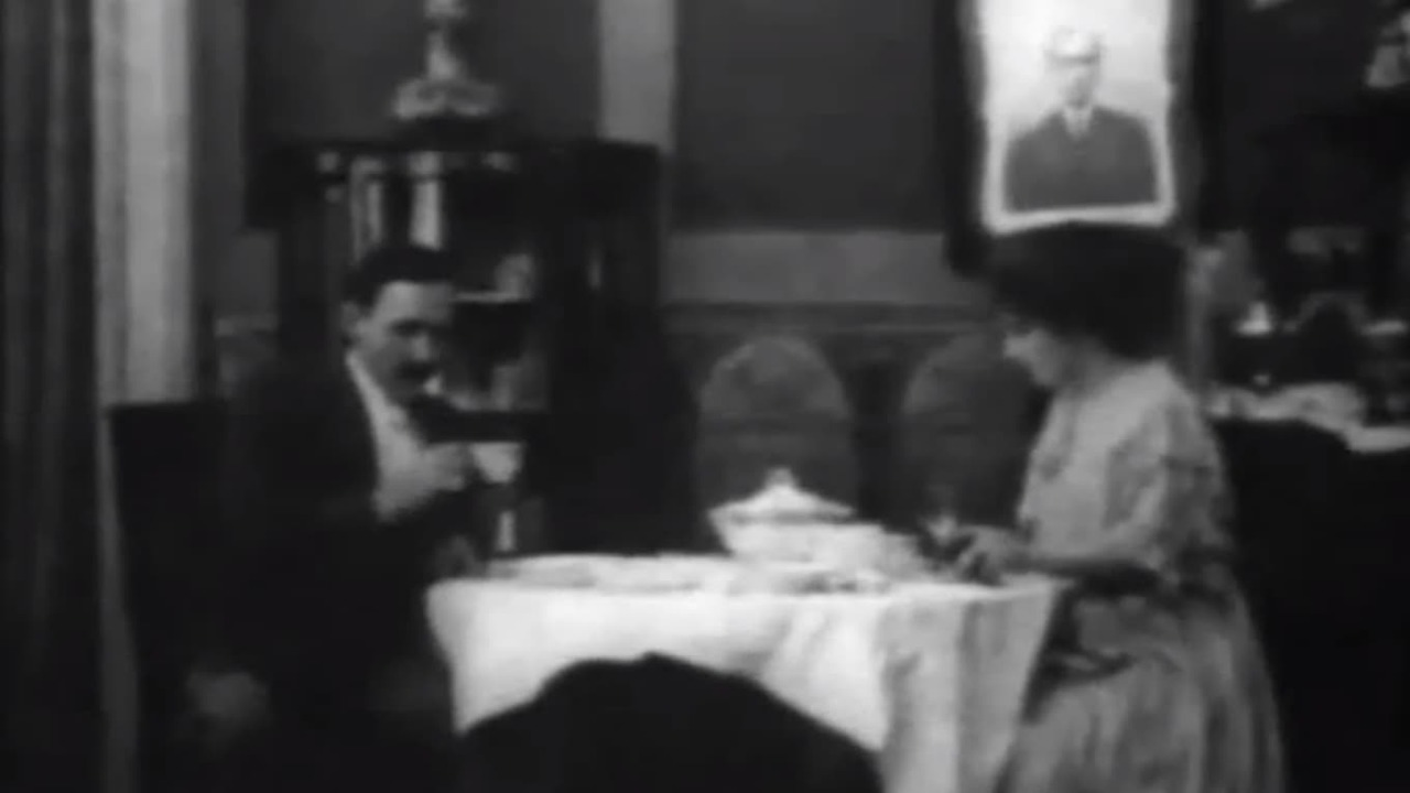 Mack Sennett and Marion Leonard in Lucky Jim (1909)